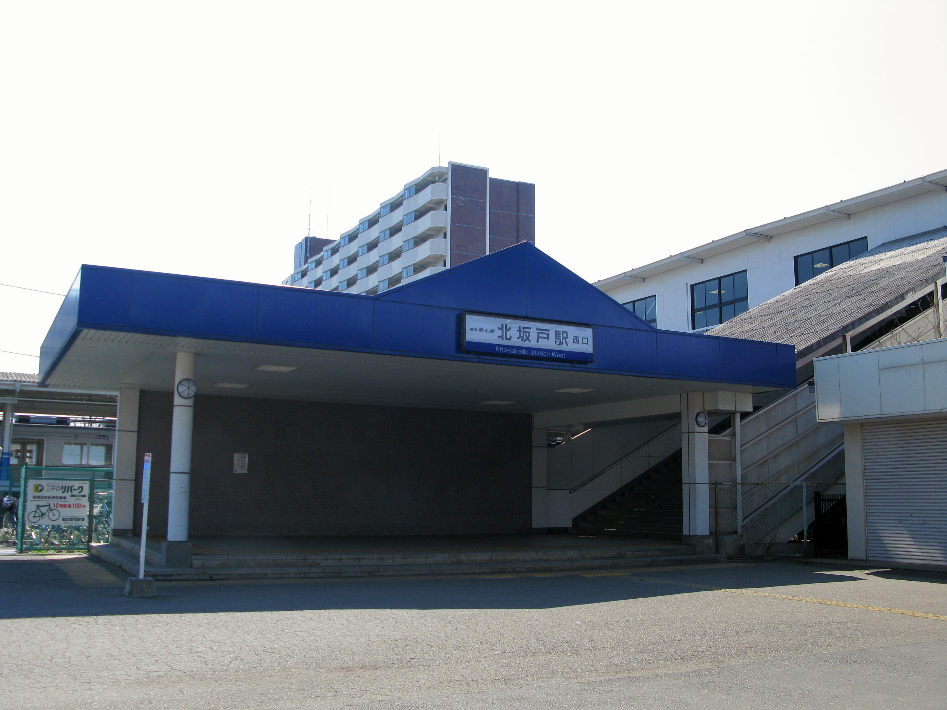 The west entrance to Kita-Sakado Station on the Tobu Tojo Line in Saitama Prefecture, Japan